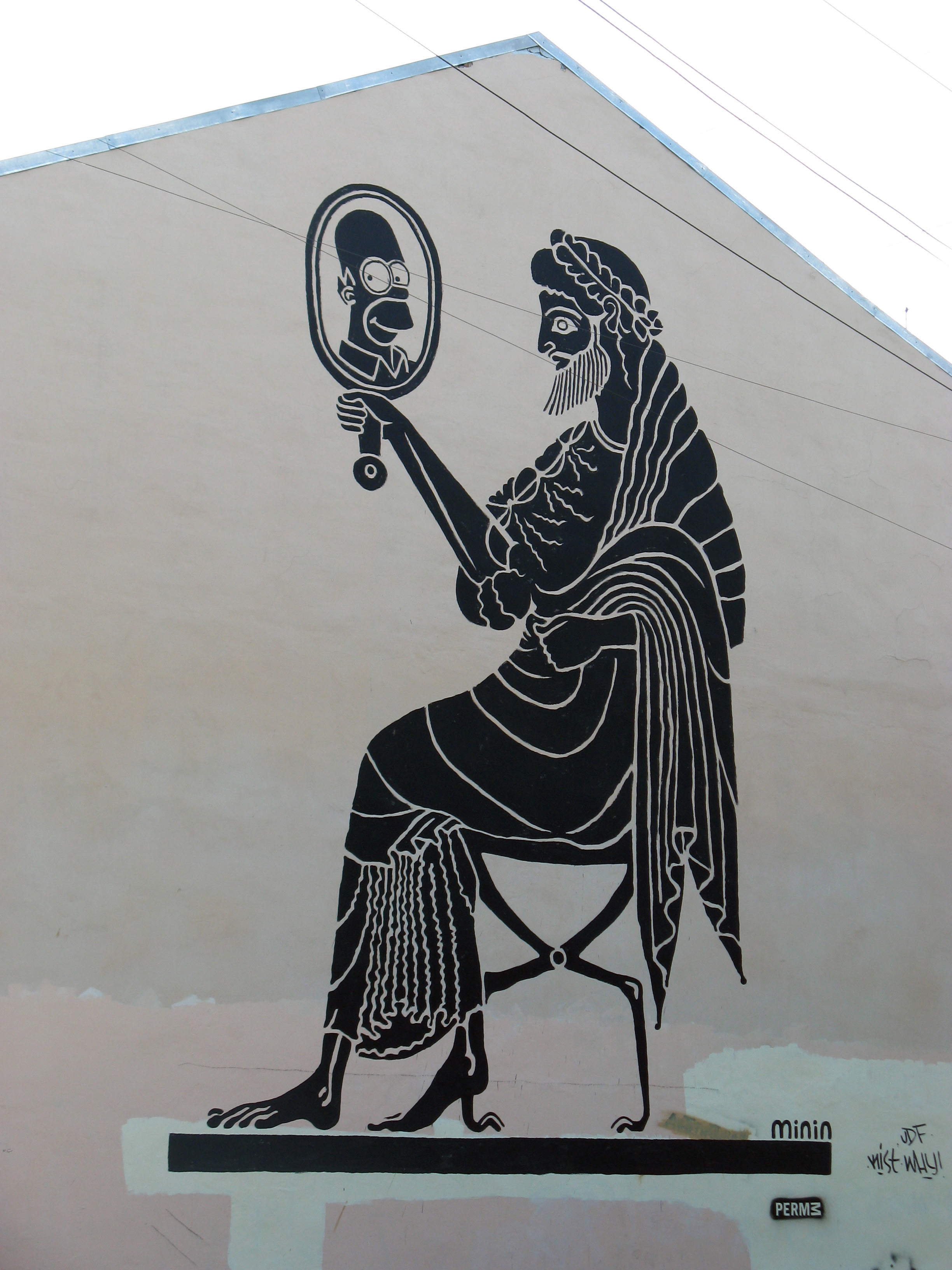 Graffiti "Homer" by artist Roman Minin on Diaghilev's House in Perm